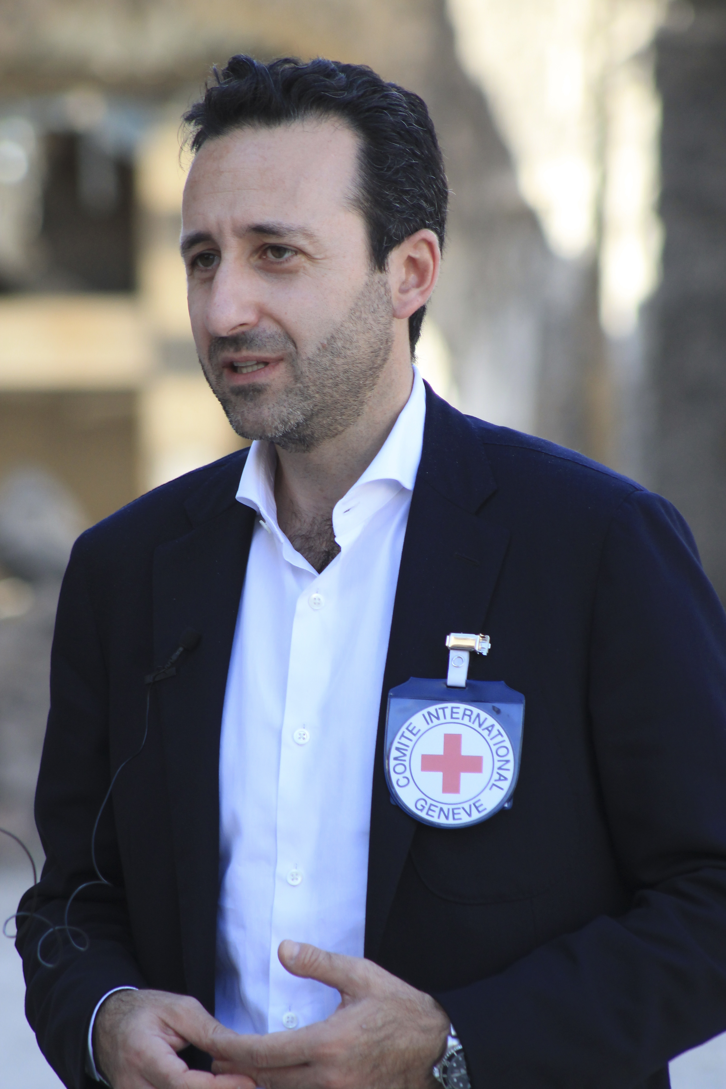 Robert Mardini is Director-General of the International Committee of the Red Cross (ICRC). He joined the humanitarian organization in 1997, and has served as Head of Water and Habitat, Deputy Director General, Regional Director for the Near and Middle East and Permanent Observer of the ICRC to teh United Nationa and Head of Delegation in New York.